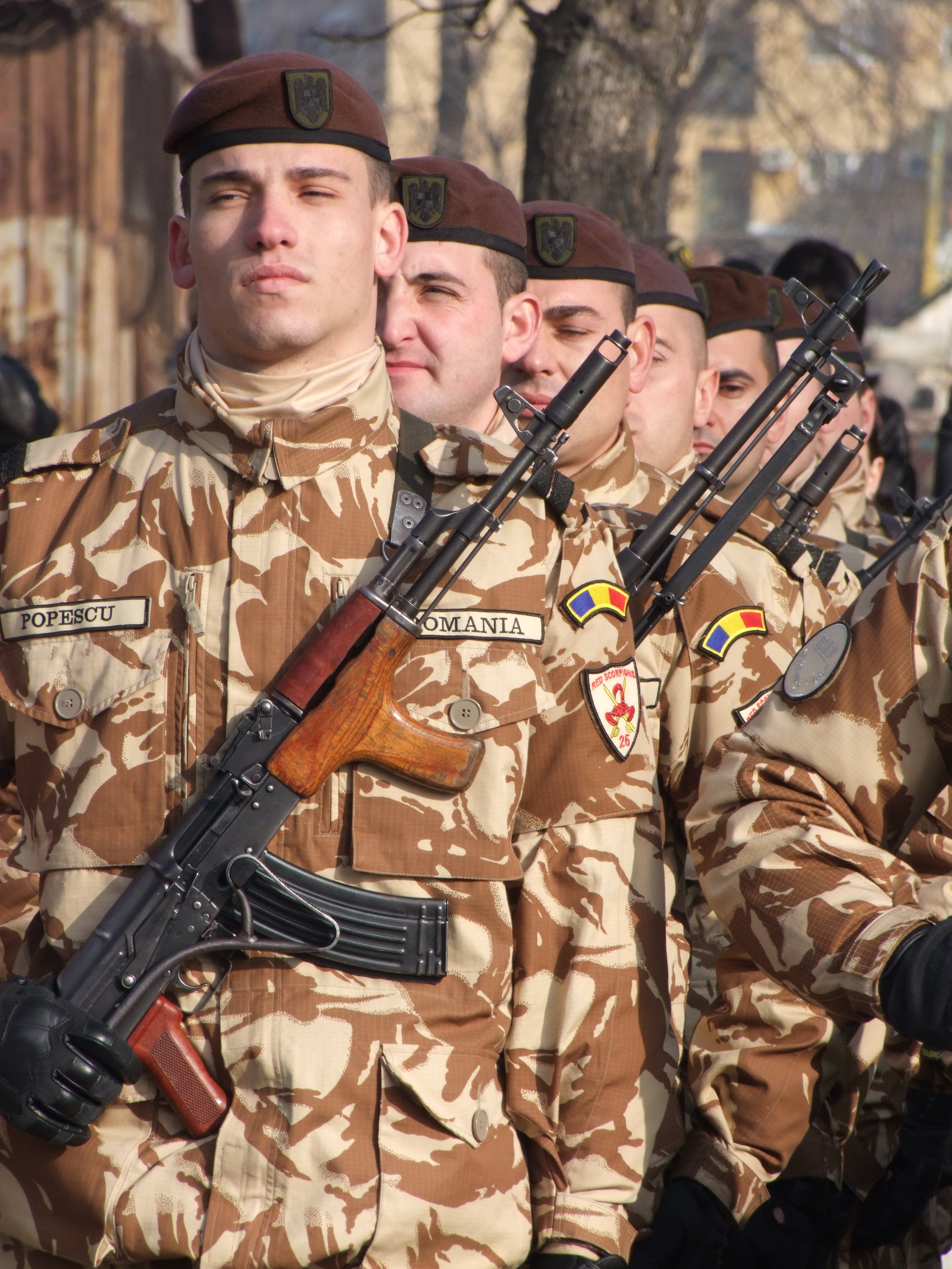 Romanian soldiers from the 26th Infantry Battalion.